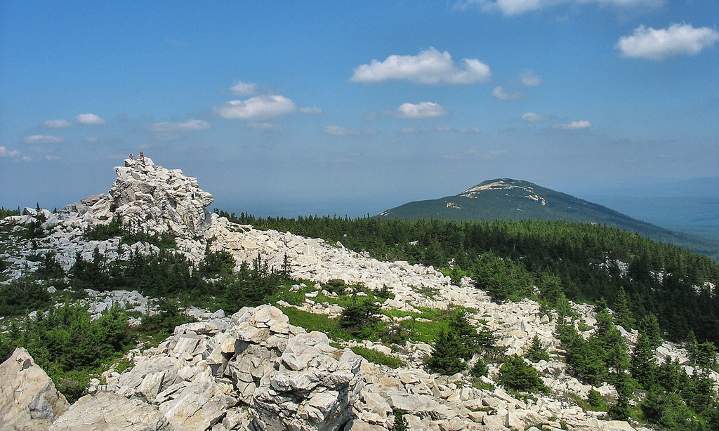 Ural highlands